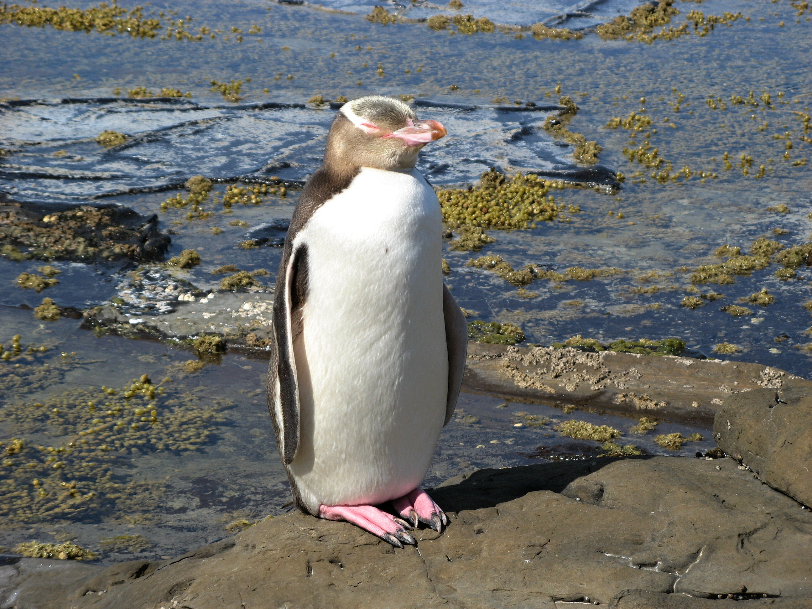 Tučňák žlutooký - Penquin Yellow Eyed na Curio Bay